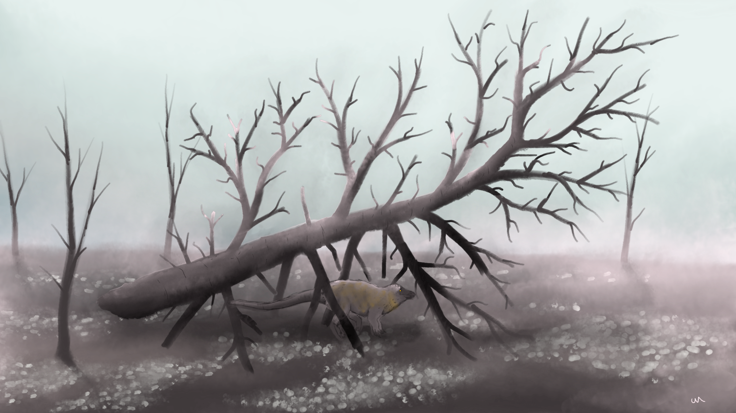 A Thescelosaurus shortly after the K-Pg mass extinction. It survived by burrowing, but would soon die of starvation.